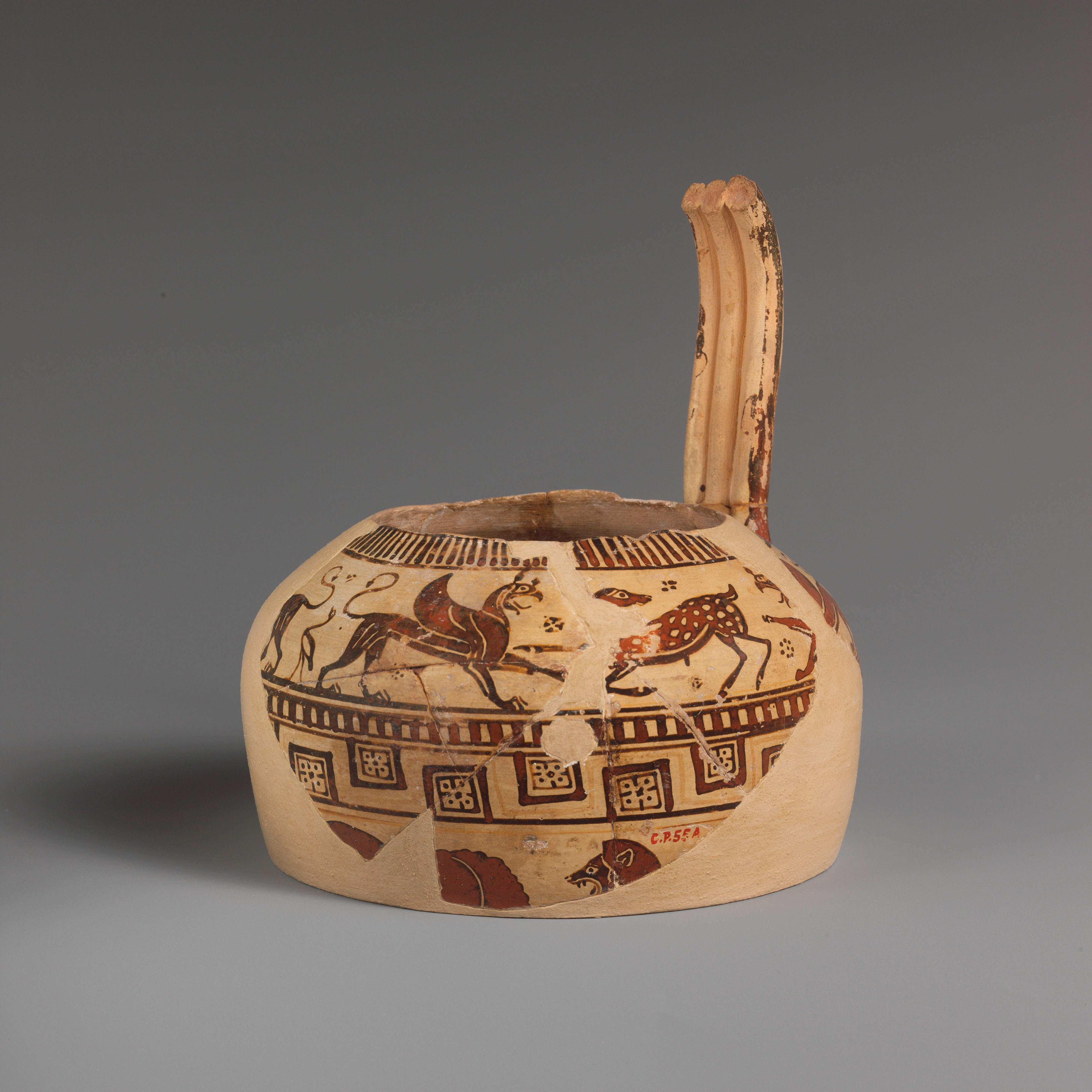 On the shoulder, deer attacked by sphinxes and griffins, water birds; On the body, bull attacked by lion. This fine fragment represents an early phase in the development of Fikellura pottery. In the animal groups as well as the drawing, there is a vitality that later subsides. The name Fikellura derives from a site on the island of Rhodes to which this fabric has been attributed. It is now established that the center of production was Miletus.